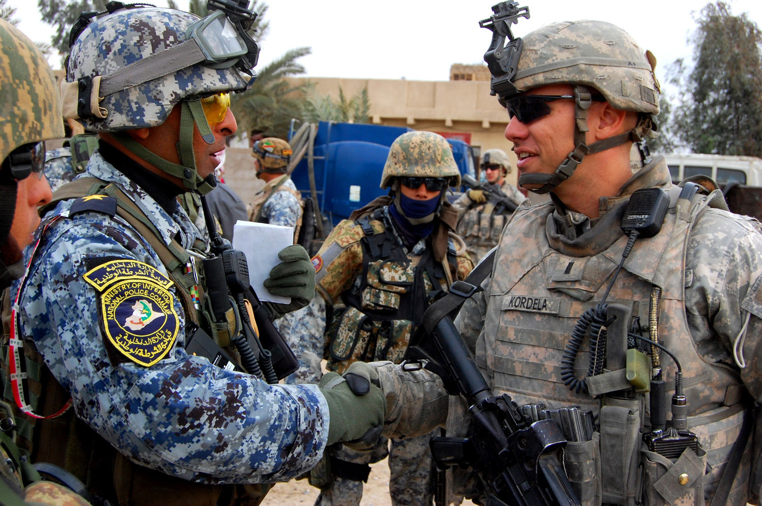 1st Lt. Joshua Kordela, of Owings Mills, Md., is thanked by an officer from the 2nd Brigade, 1st Iraqi National Police Division, after completing Operation Gunslinger Bonzai XXXII, a combined operation focused at removing illegal weapon caches from Baghdad’s Subak Sur community, Jan. 18. The “Wolfhounds” and NP have been working hand-in-hand in securing the northern Baghdad community. Kordela is an infantry platoon leader with Company B, 52nd Infantry Regiment, attached to 1st Battalion, 27th Infantry Regiment “Wolfhounds,” 2nd Stryker Brigade Combat Team “Warrior,” 25th Infantry Division, currently attached to 3rd Brigade Combat Team, 4th Infantry Division, Multi-National Division – Baghdad. See more at Army.mil